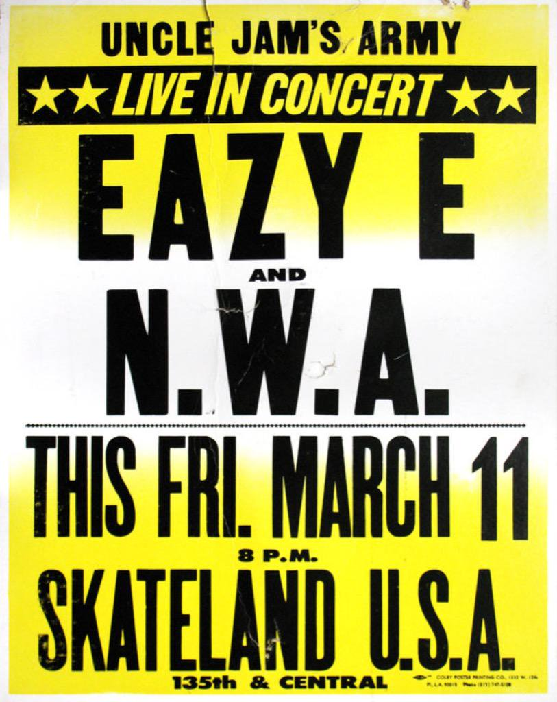 A poster for an Eazy-E and N.W.A. concert, promoted by Uncle Jamm's Army, at Skateland U.S.A. rollerskating rink in Compton, California on March 11, 1988.